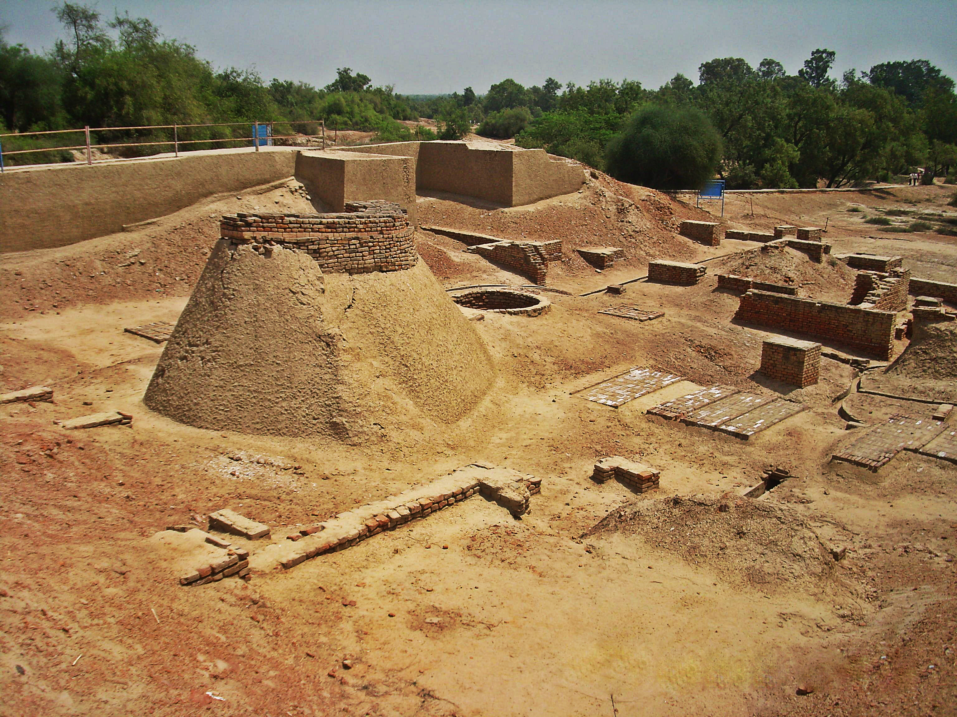 Archaeological Site of Harappa This is a photo of a monument in Pakistan identified as the PB-137